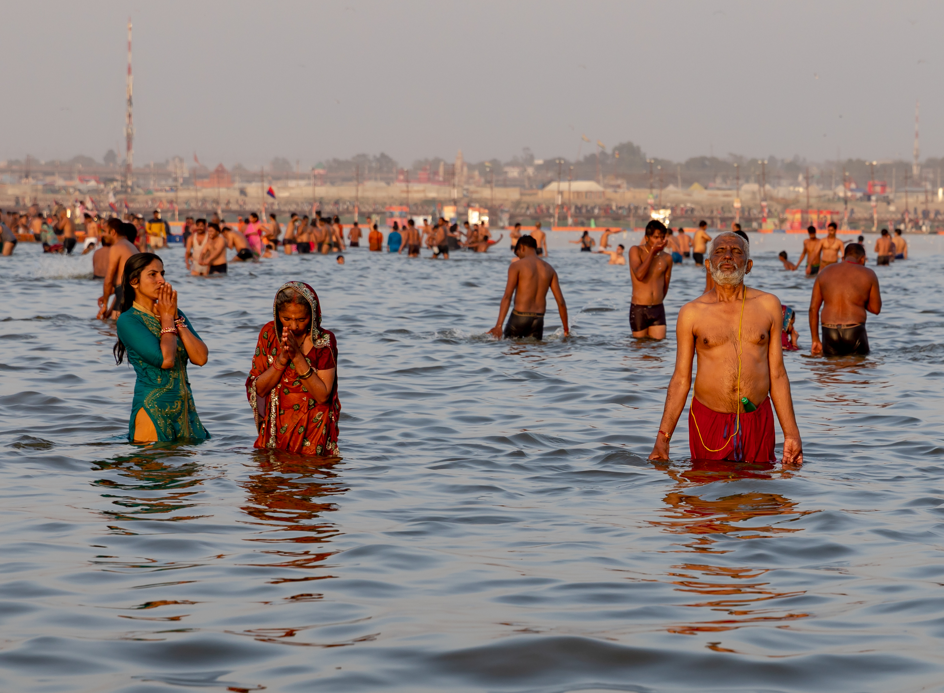 Allahabad - Prayagraj The bathing ceremony. Sunset at the confluence of Ganges, Yamuna and Sarasvati rivers. It is a holy place where people bathe during Kumbh Mela. Kumbh Mela or Kumbha Mela is a mass Hindu pilgrimage of faith in which Hindus gather to bathe in a sacred or holy river. The main festival site is located on the banks of a river: the confluence (Sangam) of the Ganges and the Yamuna and the invisible Sarasvati at Allahabad. Bathing is thought to cleanse a person of all their sins.